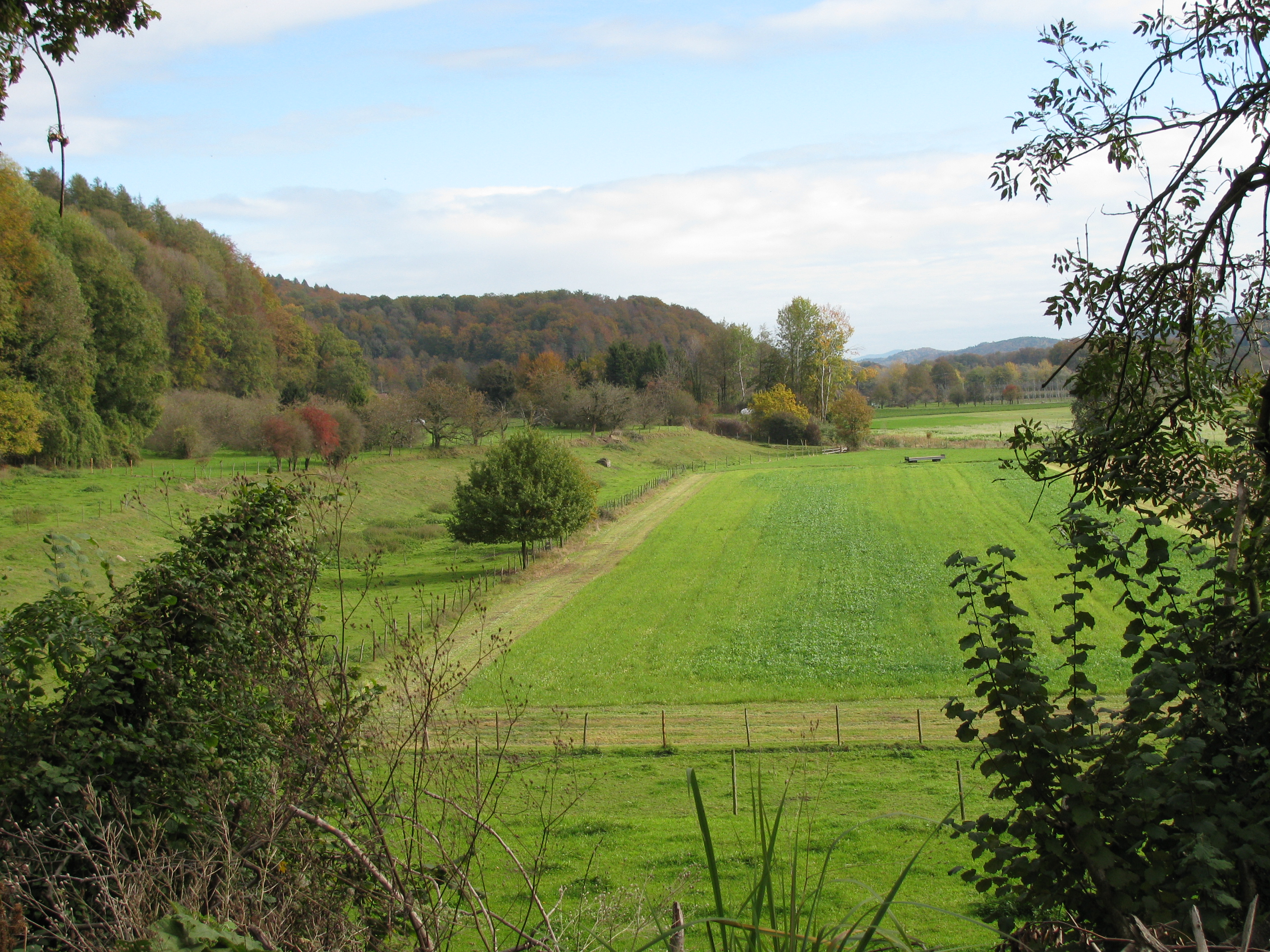 Germany - Baden-Württemberg - Bodenseekreis - Kressbronn/Langenargen/Neukirch/Tettnang: 'Eiszeitliche Ränder des Argentals mit Argenaue' protected landscape area near Gießenbrücke